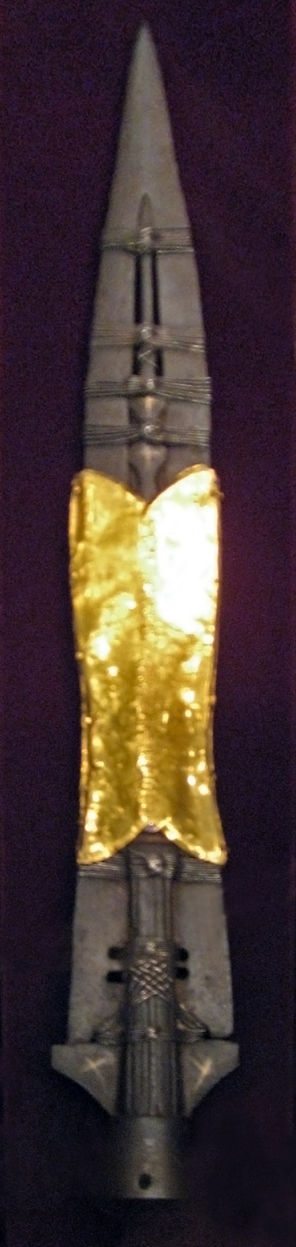 The Holy Lance Carolingian, 8th century Steel, iron, brass, silver, gold, leather 50.7 cm long SK Inv. No. XIII 19